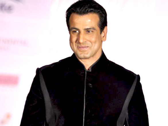 Ronit Roy at CPAA charity fashion show